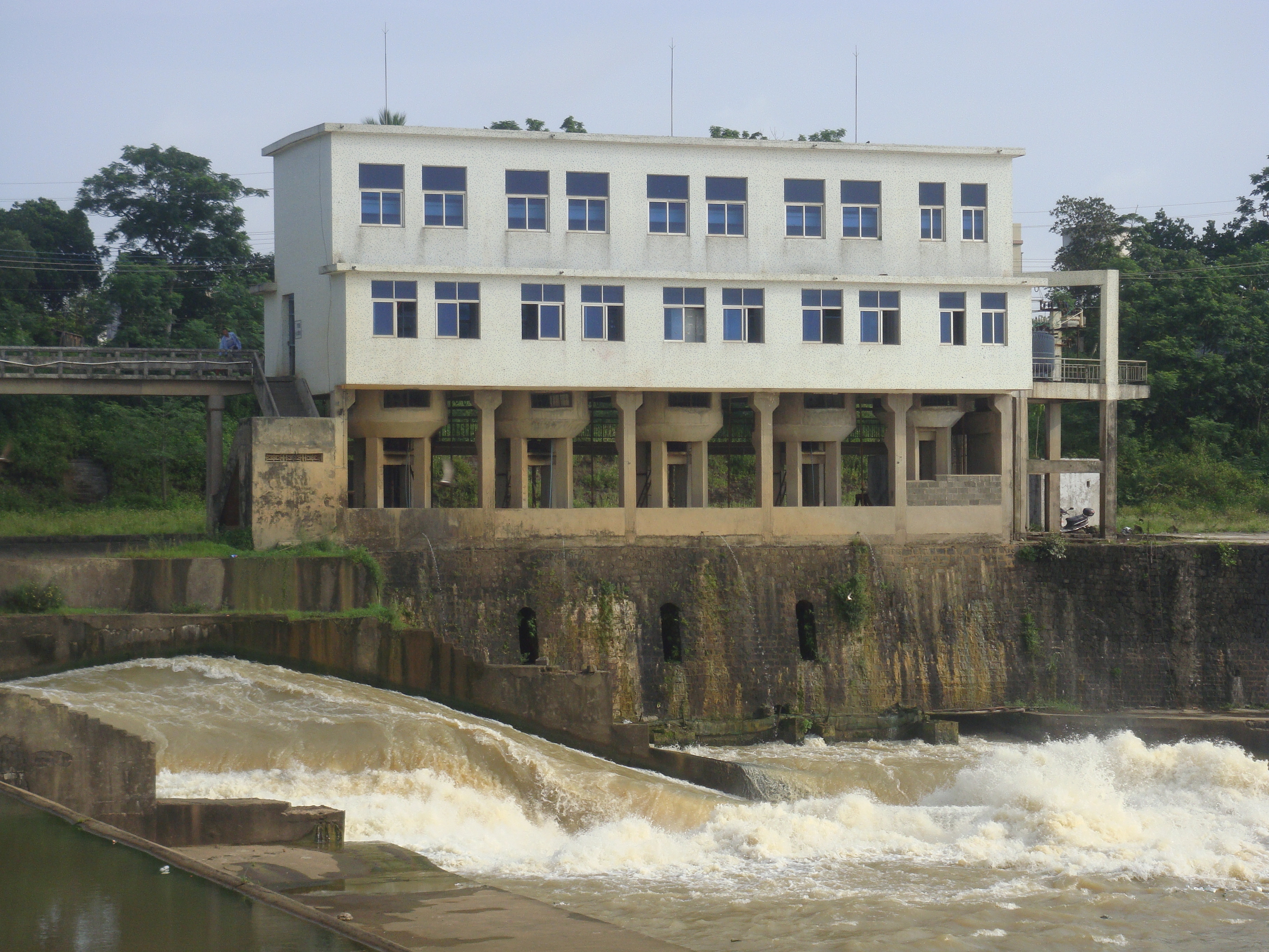 Longtang Dam's west bank generator building, Hainan, China